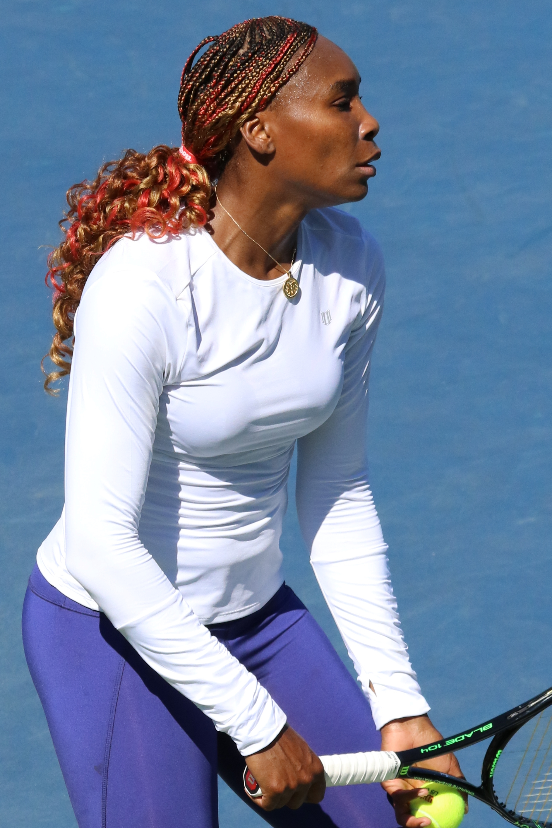 Williams V. US16 (34)